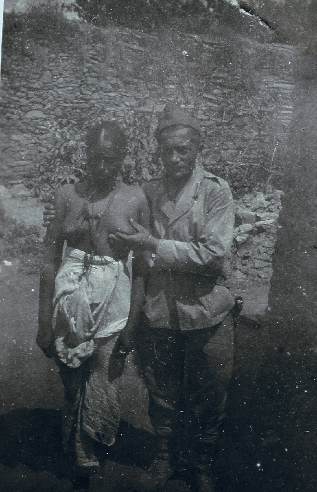 Italian soldier with a local woman in Abyssinia, 1936